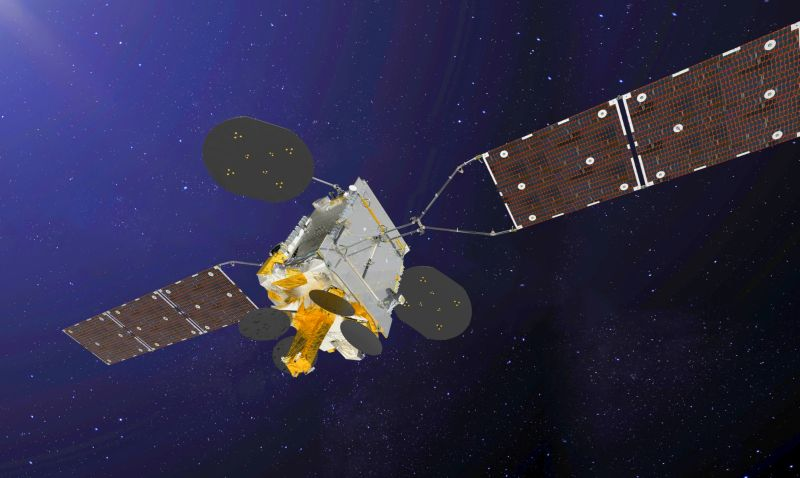 Artist view of Inmarsat GX5 satellite